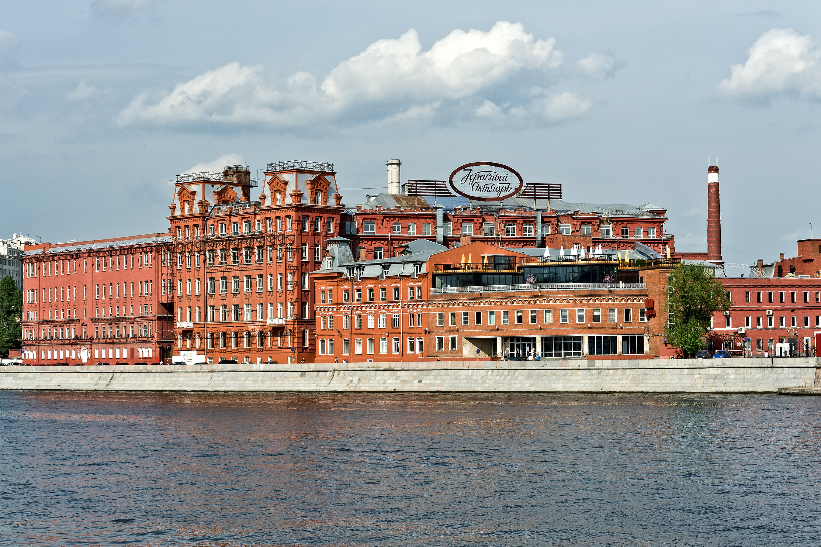 Factory building of the "Red October" confectionery on Bersenevskaya Embankment